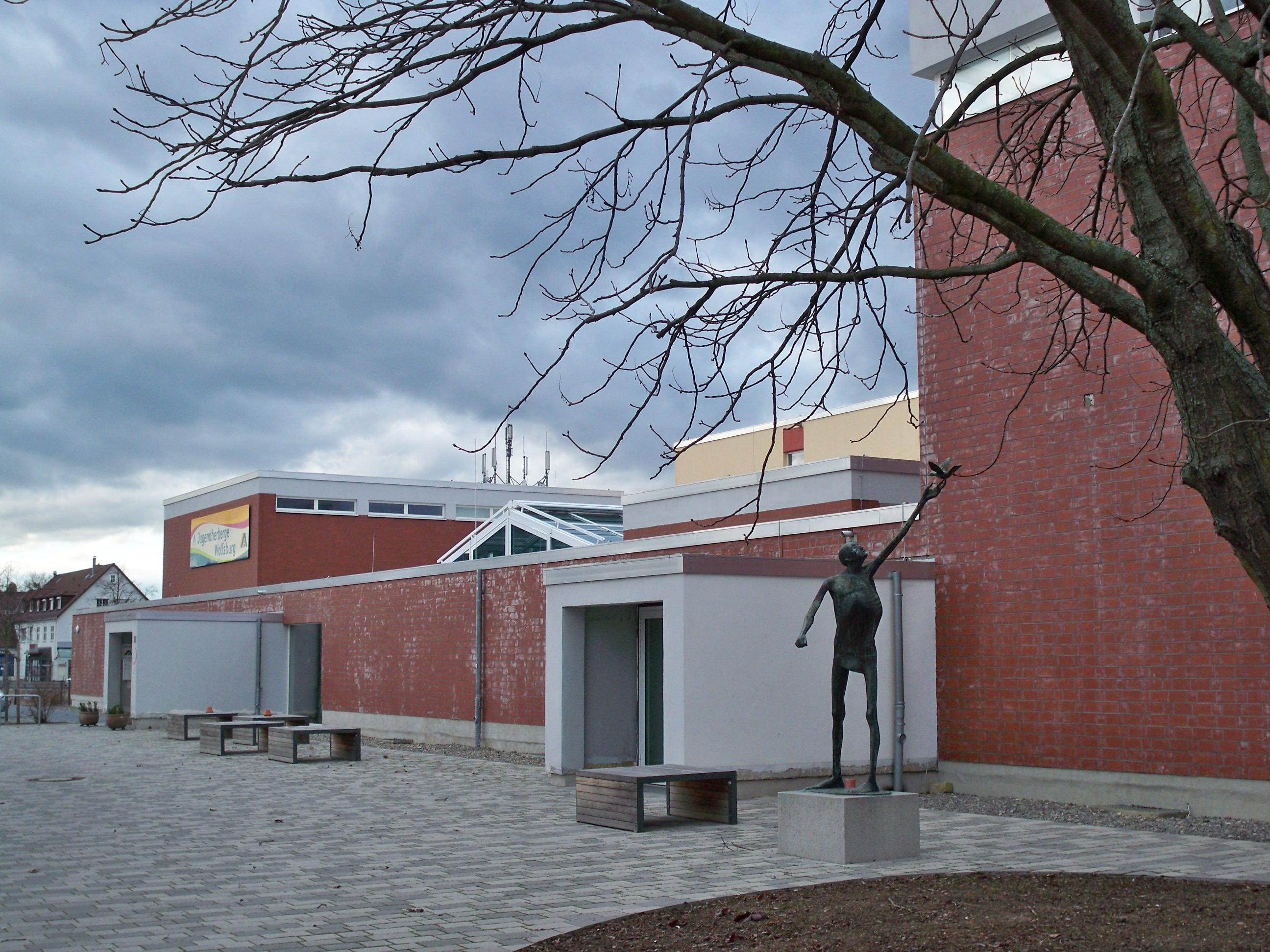 Wolfsburg, Lower Saxony, former church centre Arche, now youth hostel, with "Noah" statue